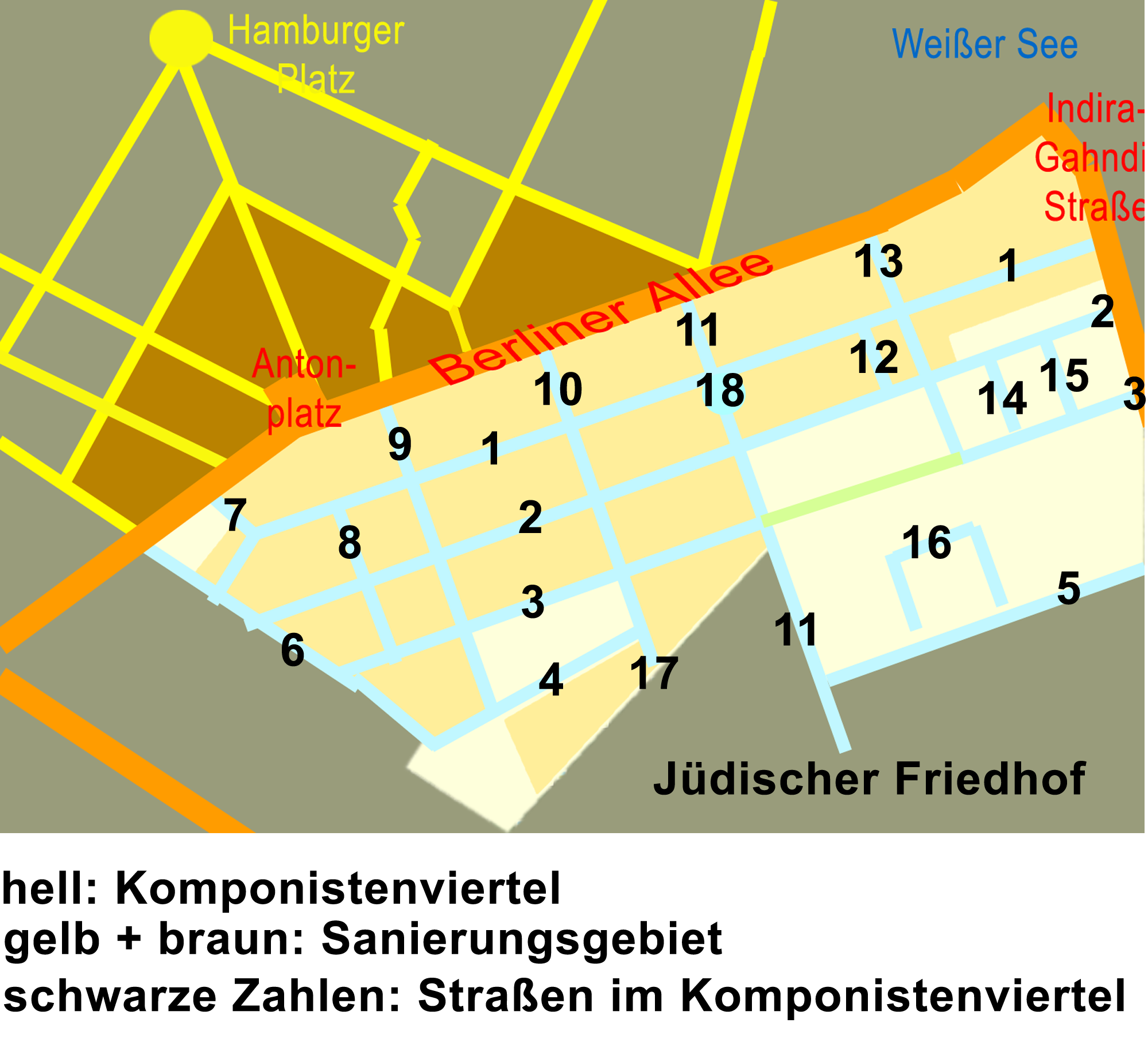 The streets and the location of Komponistenviertel, a district of Berlin-Weißensee.